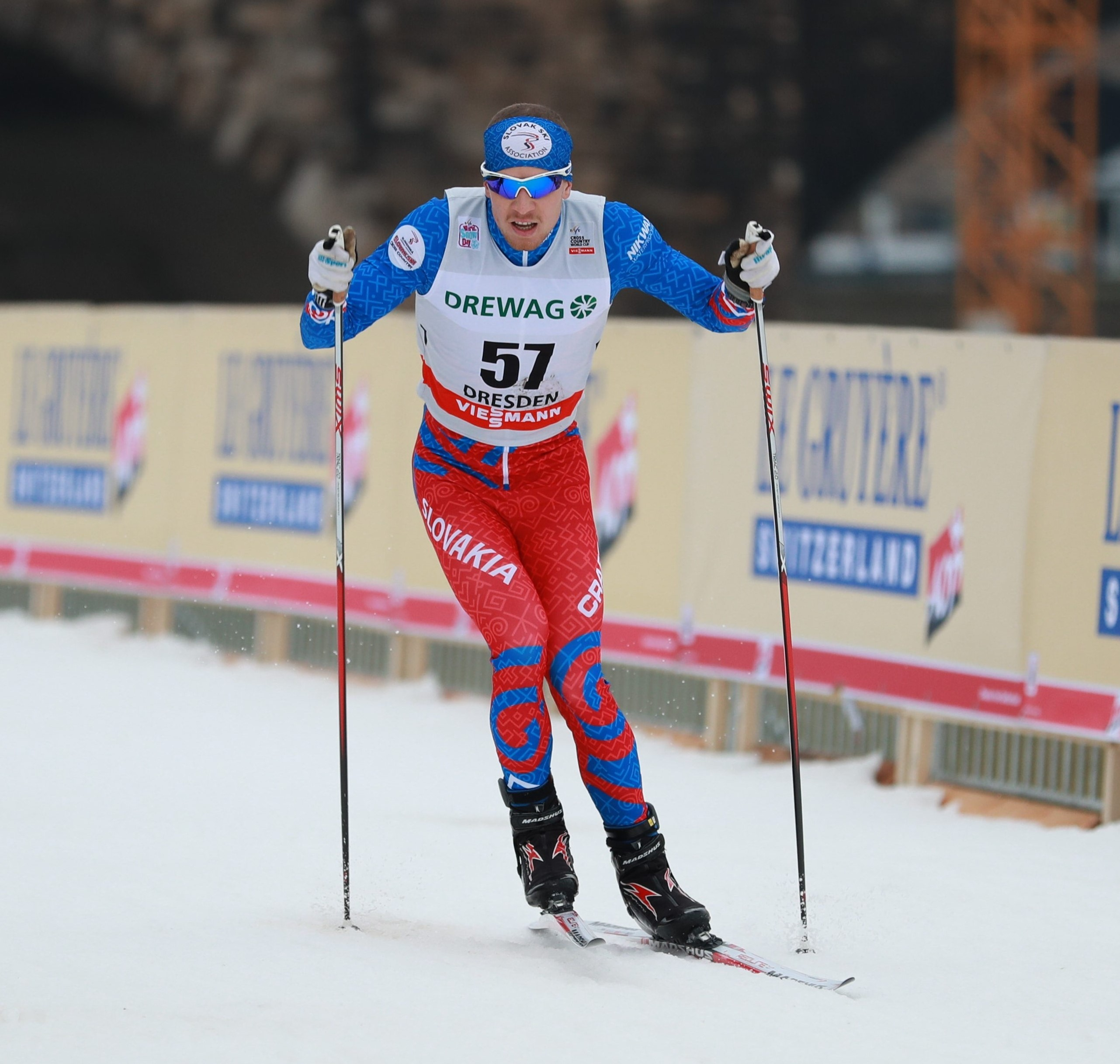 Mens Prolog at the FIS Cross-Country World Cup Dresden 2018: Miroslav Sulek